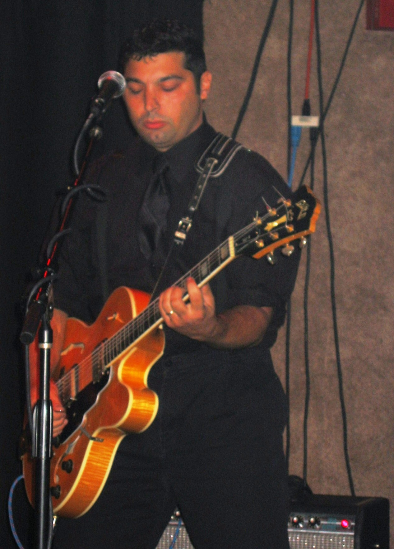 A photograph of a man wearing black clothing playing a guitar.